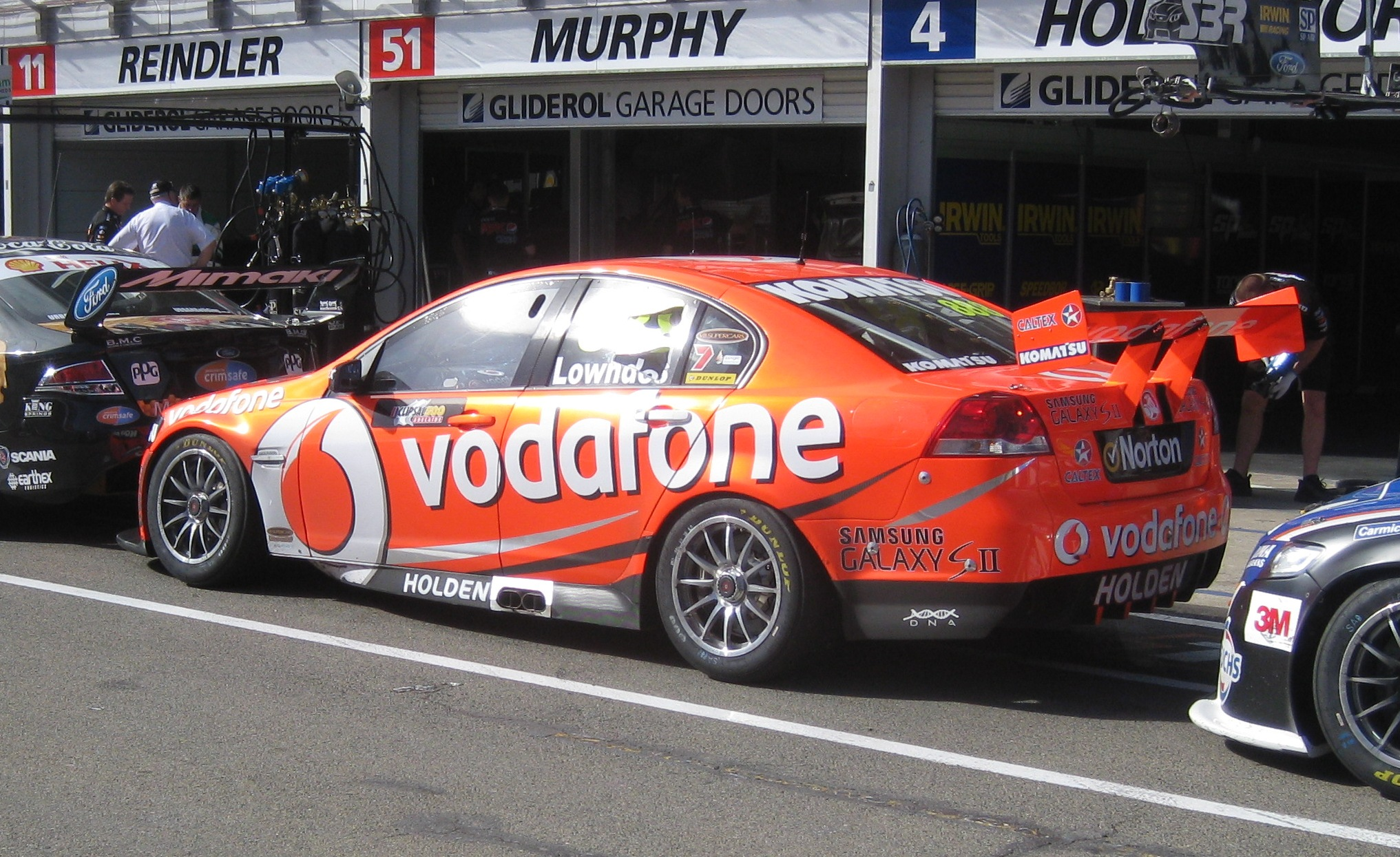 The TeamVodafone entered Holden VE Commodore of Craig Lowndes at the 2012 Clipsal 500 Adelaide